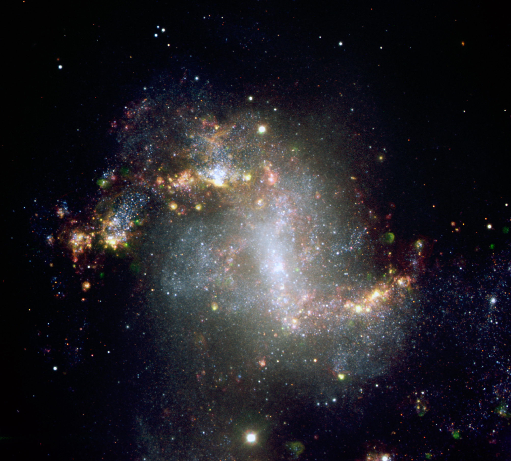 The central parts of the starburst galaxy NGC 1313. The very active state of this galaxy is very evident from the image, showing many star formation regions. A great number of supershell nebulae, that is, cocoon of gas inflated and etched by successive bursts of star formation, are visible. The green nebulosities are region emitting in the ionised oxygen lines and may harbour clusters with very hot stars. This colour-composite is based on images obtained with the FORS1 instrument on one of the 8.2-m Unit Telescope of ESO's Very Large Telescope, located at Cerro Paranal. The data were obtained in the night of 16 December 2003, through different broad- (R, B, and z) and narrow-band filters (H-alpha, OI, and OIII). The data were extracted from the ESO Science Archive and fully processed by Henri Boffin (ESO). ID: phot-43a-06 Press Release: ESO 43/06 Long Caption Object: NGC 1313 Telescope: UT2/Kueyen Instrument: FORS1 Credit: ESO